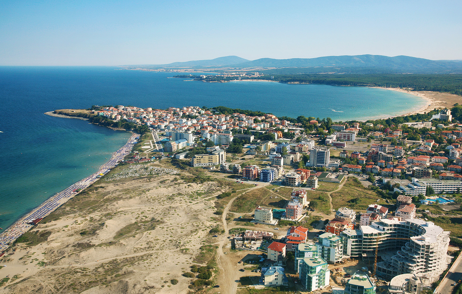 On foreground are the sand dunes of Primorsko, some hotels and the north beach. In the distance is the town of Kiten. The white "dots" on the dunes, just to the right of the beach, are actually tombstones, as this is the old cemetery of Primorsko. Creepy beach! Shot with our helium balloon.